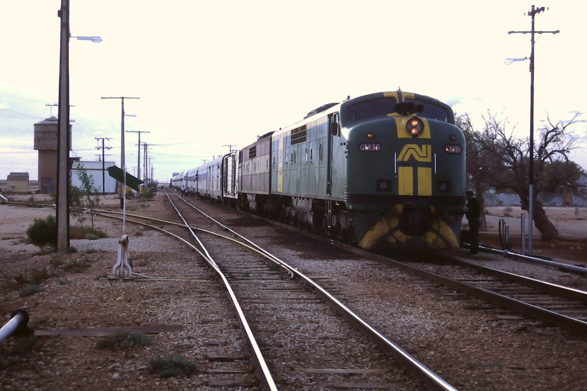 Australian National's GM36 (in AN green and gold livery) and GM22 Hubert Opperman (still in Commonwealth Railways maroon and silver livery with Australian National Railways lettering) await their early morning departure from Cook (on the Trans-Australian Railway) with the Perth-bound Trans Australian. Kodachrome slide converted by Kaiser Baas Photo Maker Pro into a digital image.